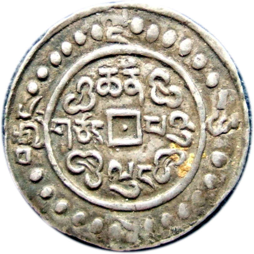 Tibetan half sho silver coin, dated Qian Long era 58 (1793),reverse